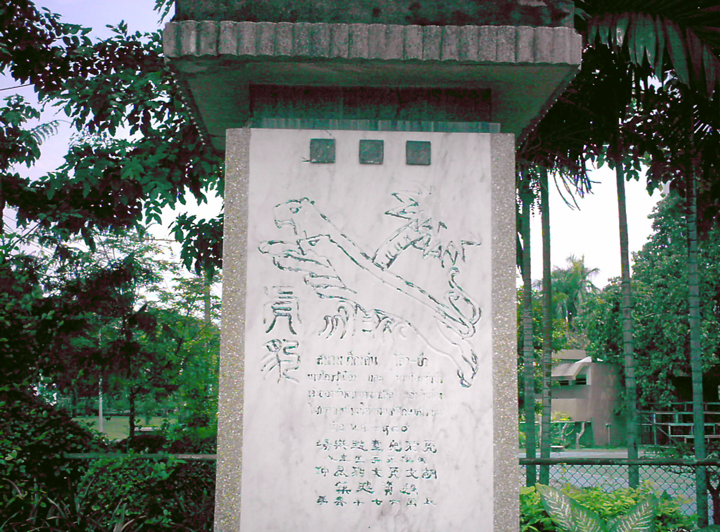 Monument, Haw Par Playground at Lumpini Park, Bangkok, Thailand. 中文（香港）: 泰國，曼谷，巴吞旺縣，是樂園，虎豹兒童遊樂場，紀念碑。